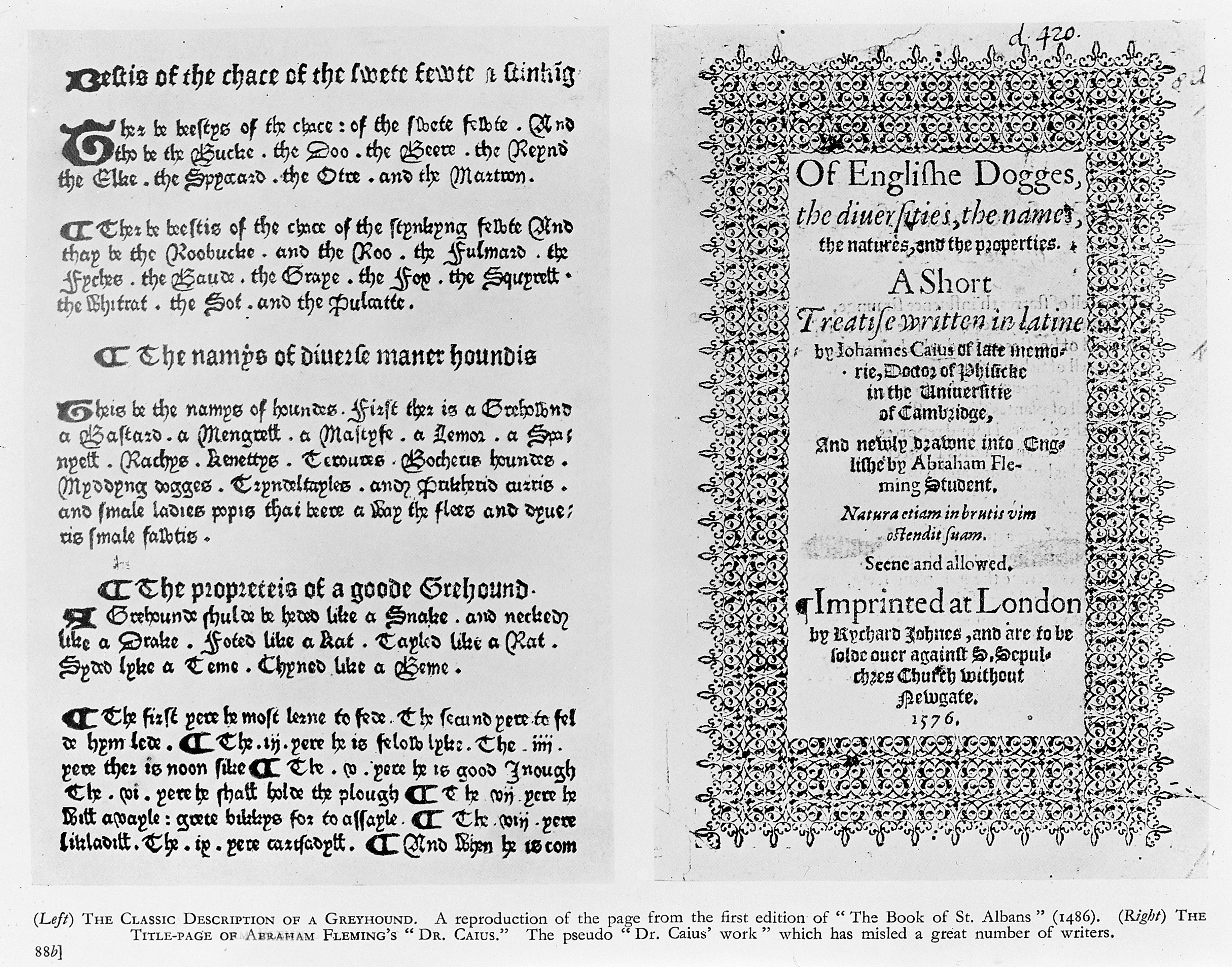 Left: the classic description of a greyhound from the Book of St. Albans 1st edition, 1486. Right: The title-page of Abraham Fleming's 'Dr. Caius', Of English Dogges, 1576 General Collections Keywords: Zoology